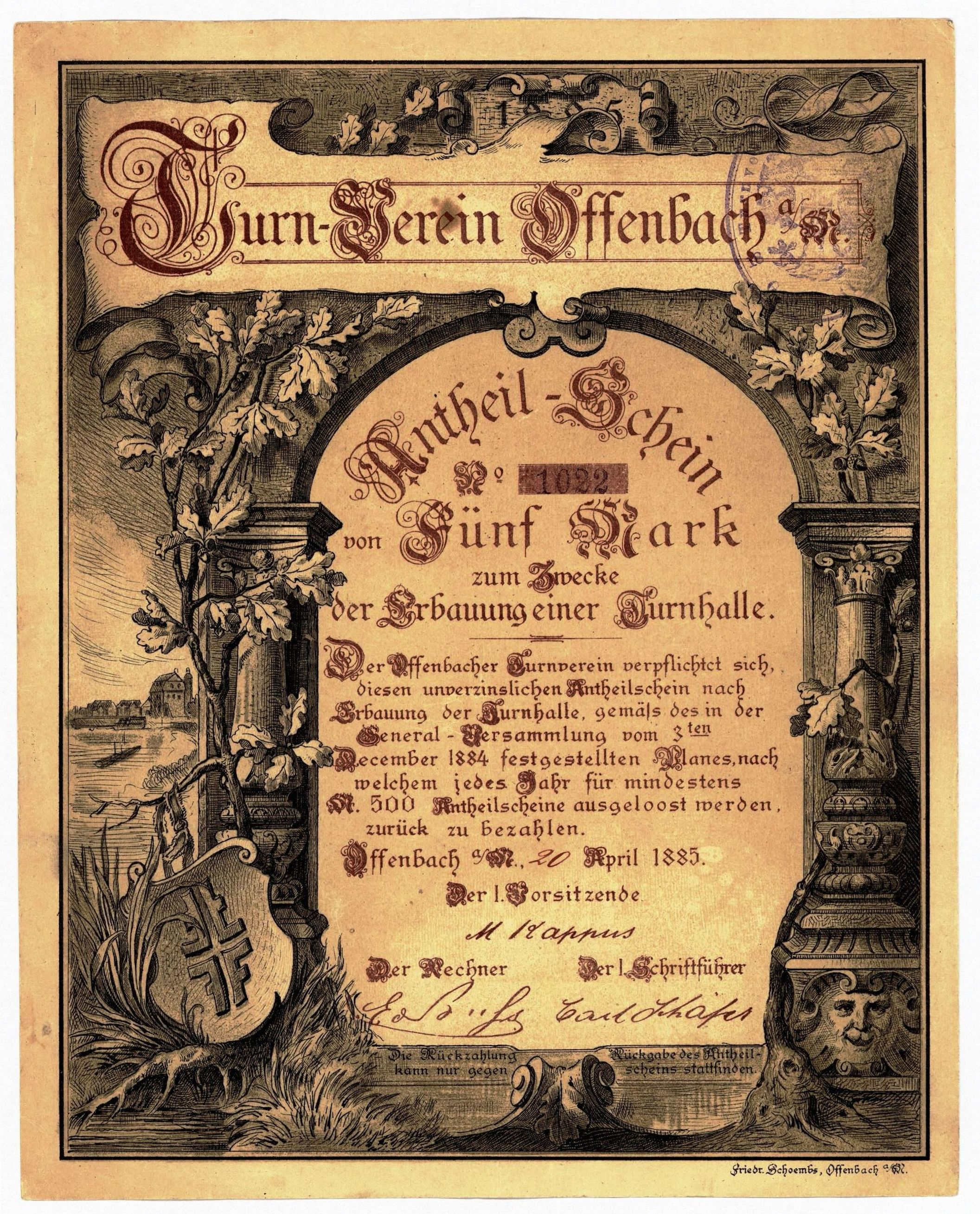 Share certificate of the Turn-Verein Offenbach, issued 20. April 1885